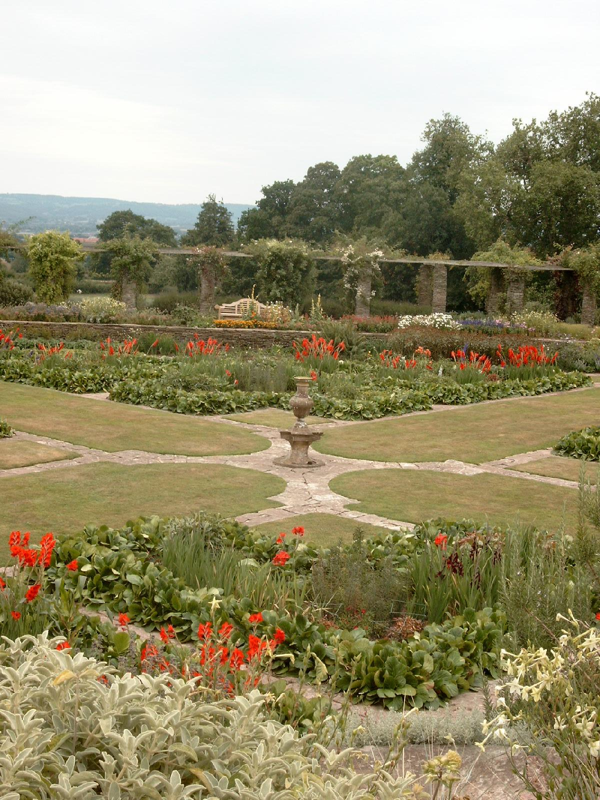 Detail from Hestercombe Gardens near Taunton, Somerset